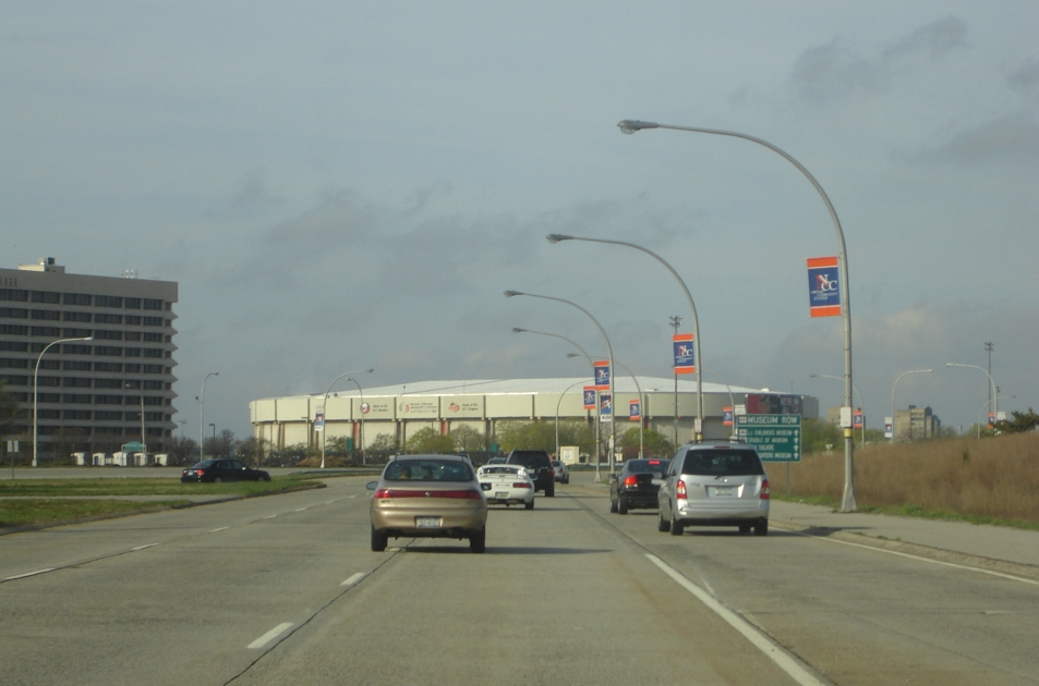 Westbound on Charles Lindberg Boulevard towards Nassau Veterans Memorial Coliseum in Uniondale, New York.